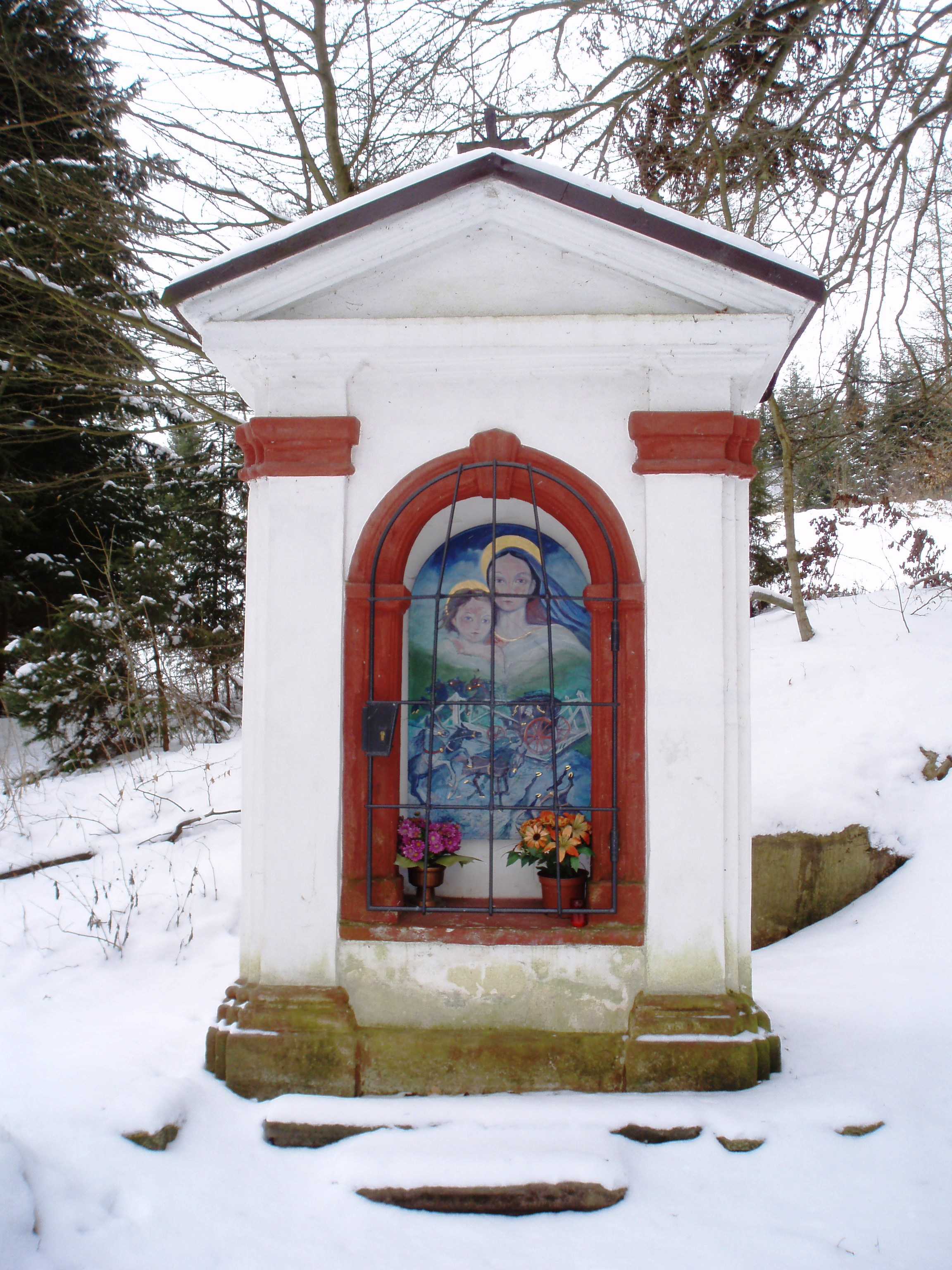 Chapel in Slatina nad Úpou (Czech Republic)